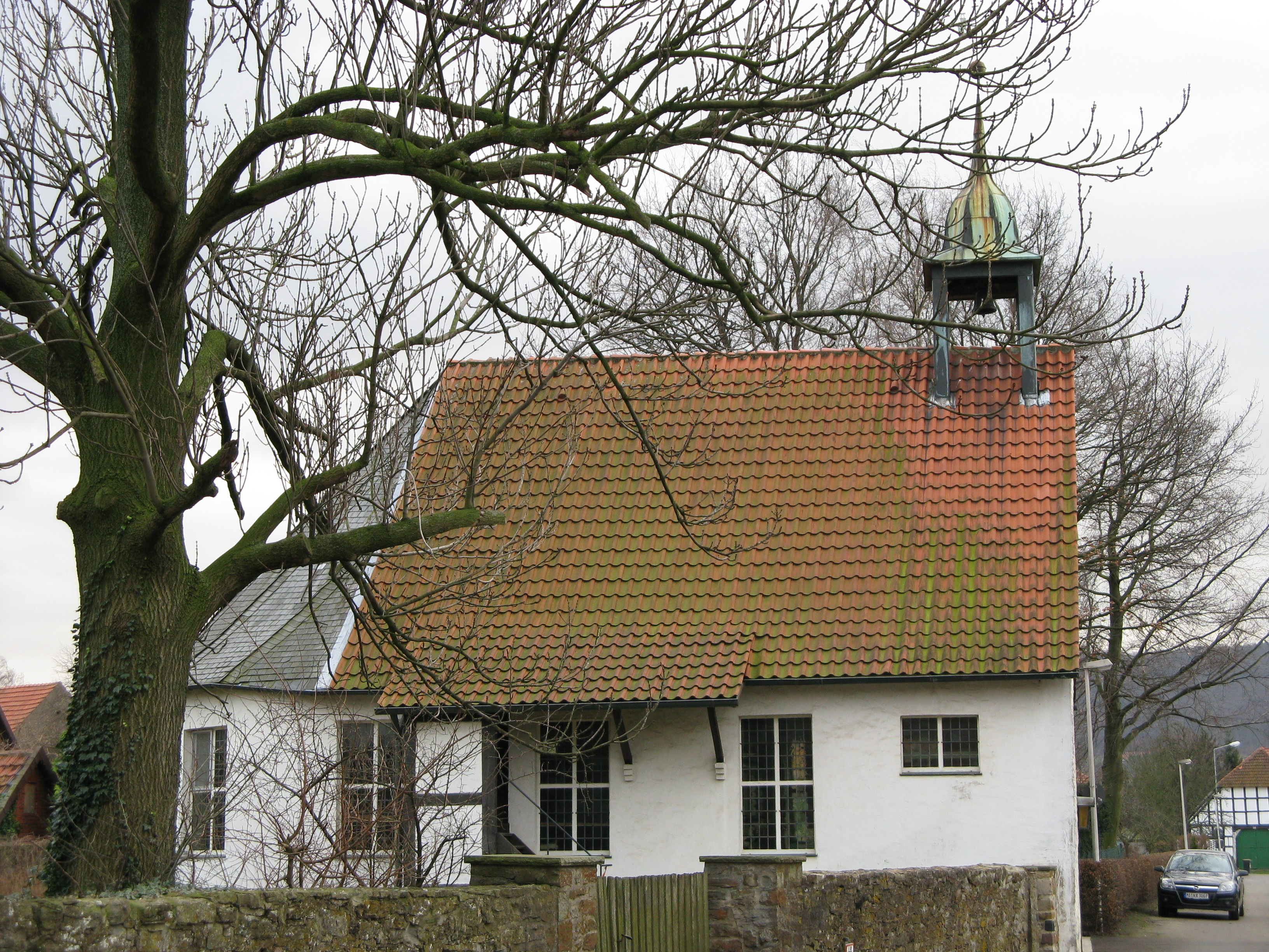 This image shows a heritage building in Germany, located in the North Rhine-Westphalian city Minden (no. 249).